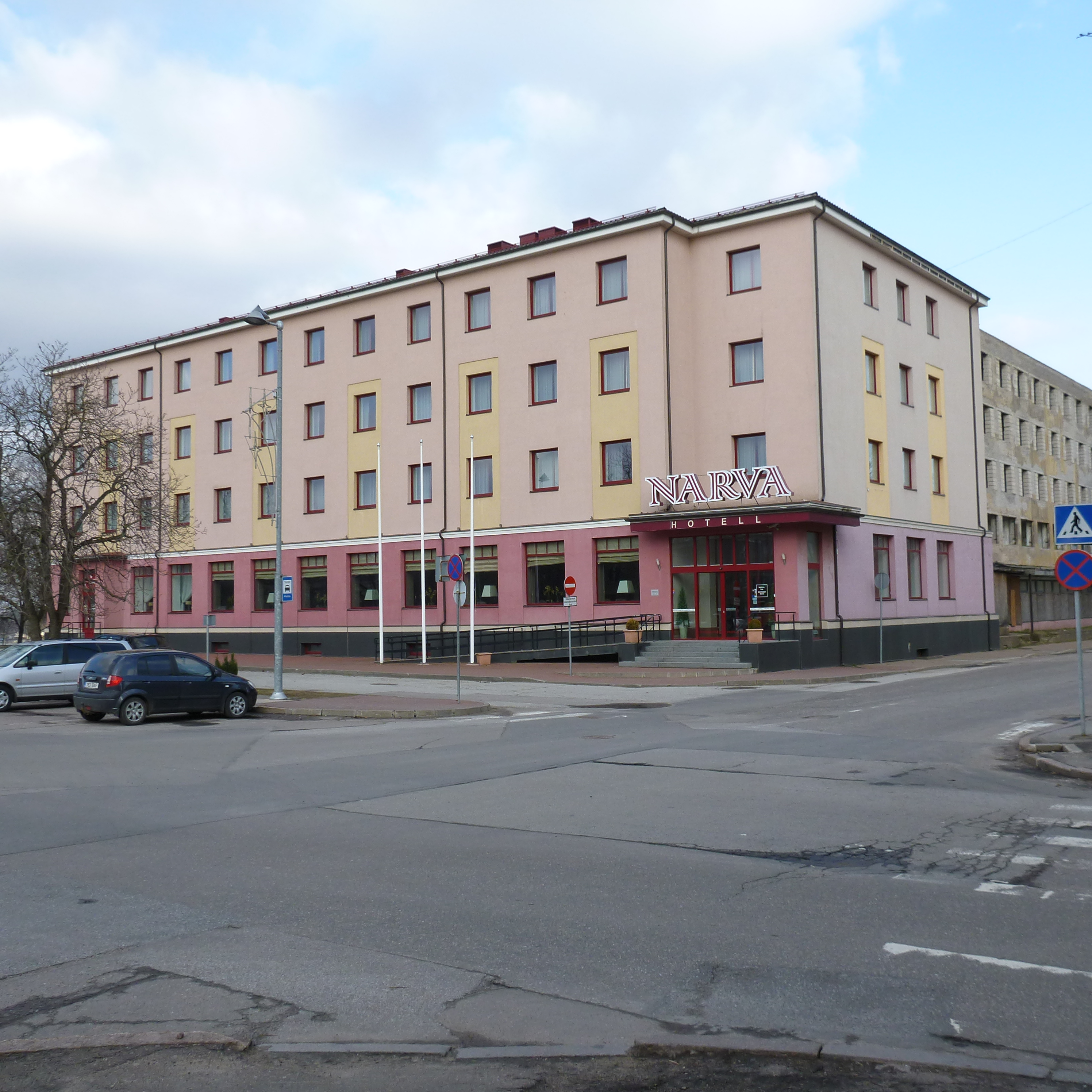 Hotel Narva in the centre of Narva